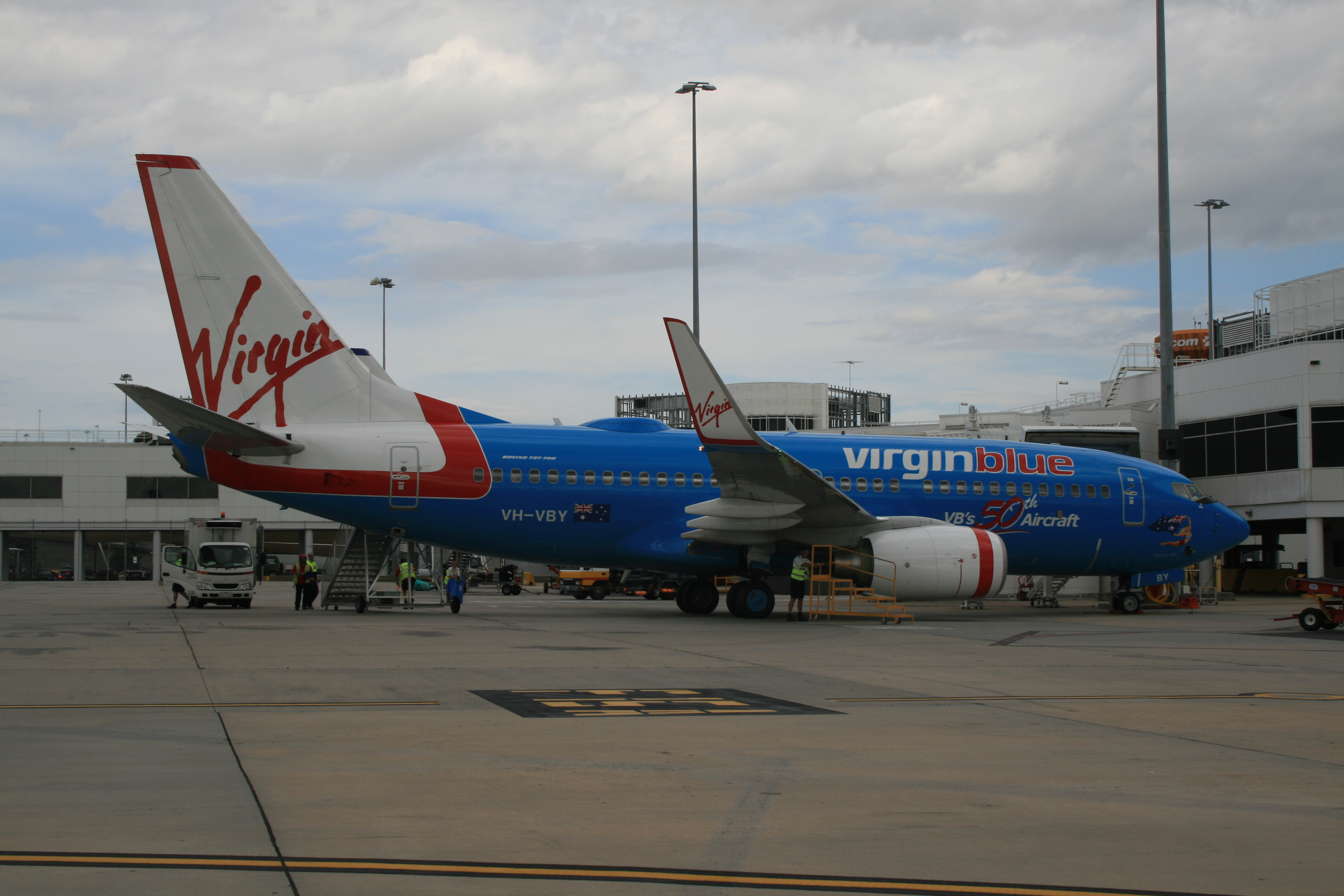 Virgin Blue actually has only one blue aircraft, the 50th Boeing 737 to enter service with the company. The names of all Virgin Blue employees at the time of the aircraft's delivery are inscribed on the baggage compartment doors in the passenger cabin. Digital photo of 737-700 VH-VBY taken at Melbourne Airport.